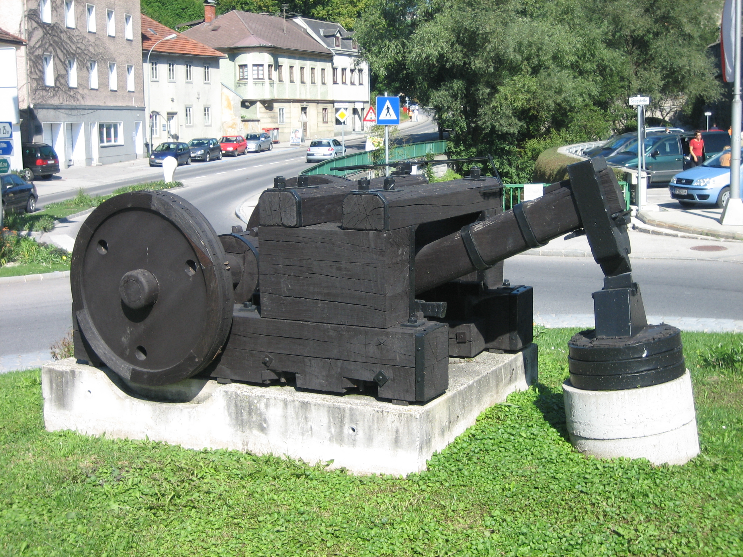 Austria, Lower Austria, Waidhofen an der Ybbs: Historical forge hammer situated in a roundabout traffic in town centre.